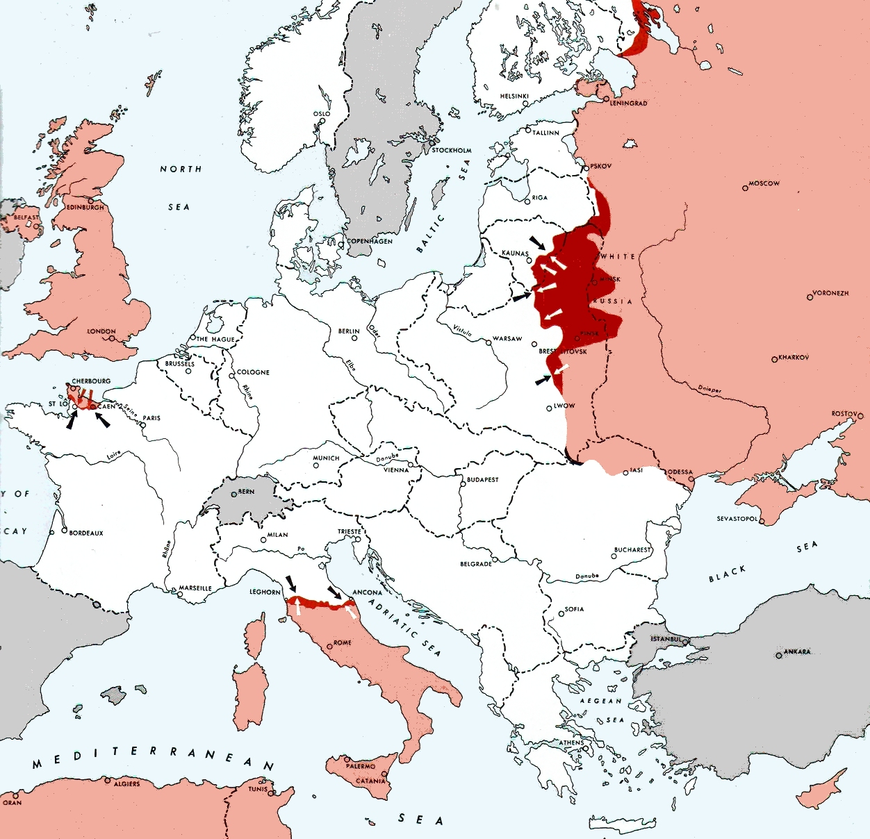 Map of the front against Germany: This map is taken from the source "Atlas of the World Battle Fronts in Semimonthly Phases to August 15th 1945: Supplement to The Biennial report of The Chief of Staff of the United States Army July 1, 1943 to June 30 1945 To the Secretary of War". (See Cover, Forward and Map details)